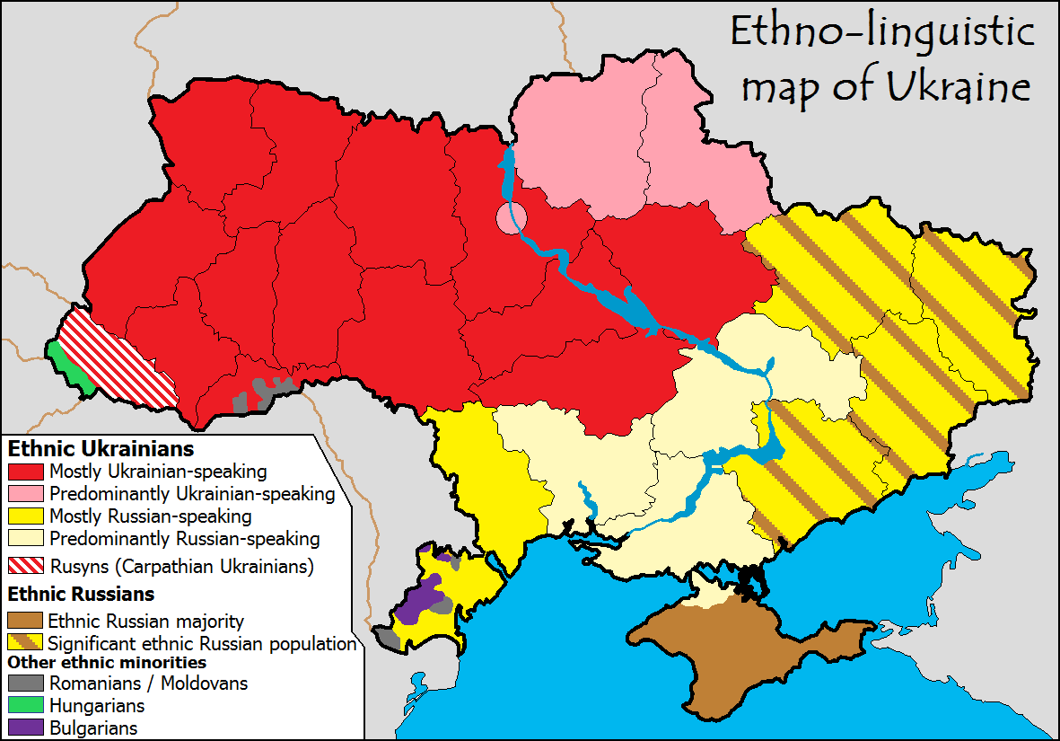 Ethno-linguistic map of Ukraine. Ethnic Ukrainians Mostly Ukrainian-speaking Predominantly Ukrainian-speaking Mostly Russian-speaking Predominantly Russian-speaking Rusyns (Carpathian Ukrainians) Ethnic Russians Areas with ethnic Russian majority Areas with significant ethnic Russian population Other ethnic minorities Romanians / Moldovans Hungarians Bulgarians